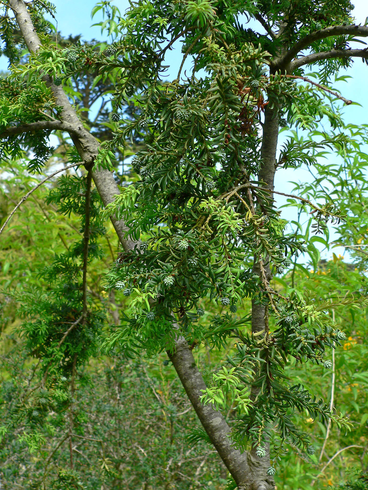 Photo of Saxegothaea conspicua at the San Francisco Botanical Garden